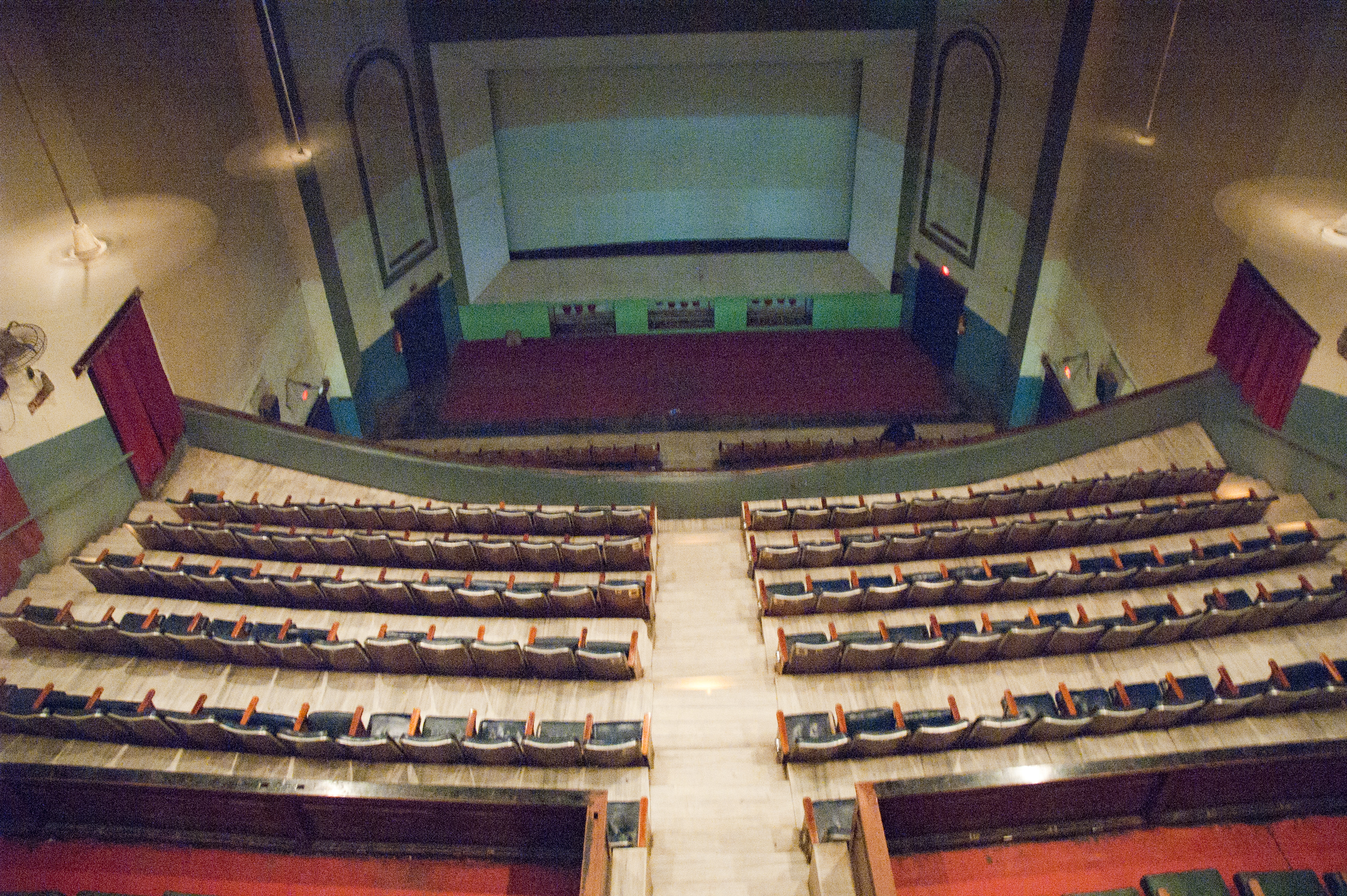 Plaza theatre, as viewed from the projection room